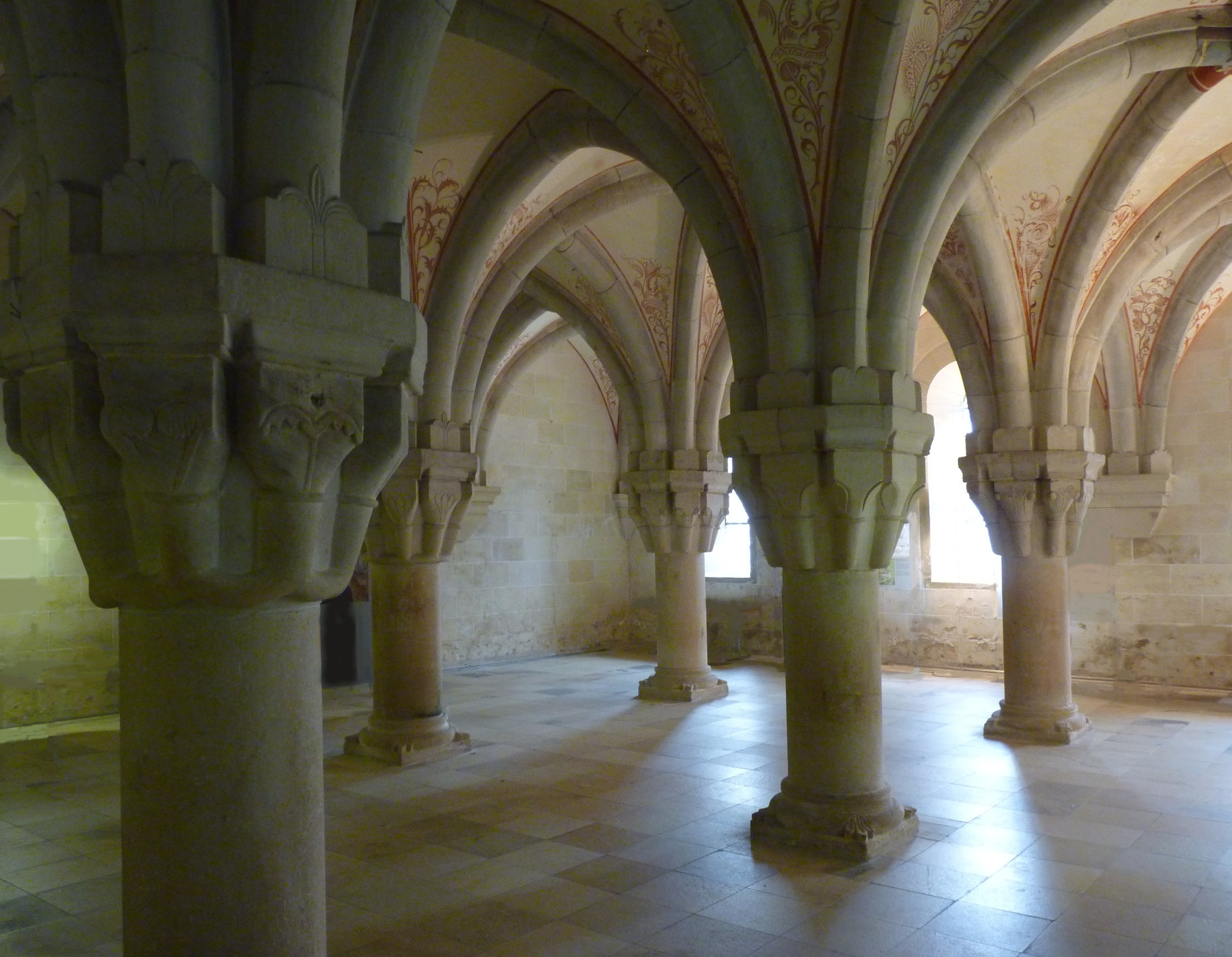 Brothers' hall of the monastery in Bebenhausen